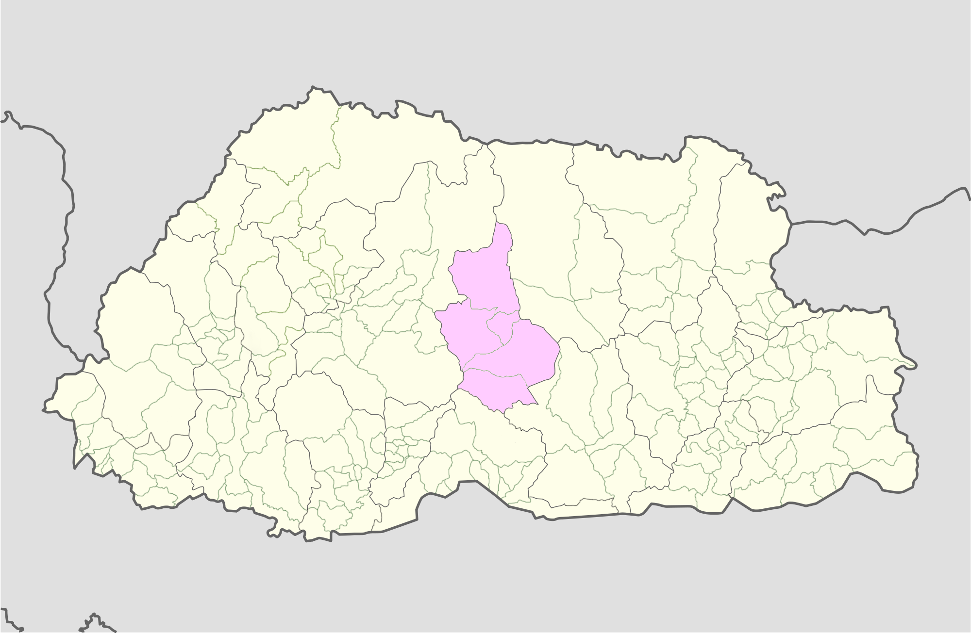 Locator map of the Trongsa District — in central Bhutan. Trongsa town is located within it.